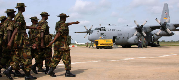 A C-130 departed Abuja, Nigeria Oct. 28 with approximately 40 Nigerian troops and 3,000 pounds of equipment for the El-Fashir airstrip in Sudan's Darfur region marking the beginning of the airlift mission of African Union protection forces to the troubled region. More than 120 active-duty and reserve U.S. Air Forces in Europe Airmen and two C-130 Hercules aircraft deployed to Kigali , Rwanda , from Europe Oct. 22 to set up operations in support of the African Union airlift mission. One of the C-130s arrived in Nigeria Oct. 27 in preparation for the Nigerian troops' airlift. The C-130's will continue to airlift additional African Union forces into the region over the next two weeks.